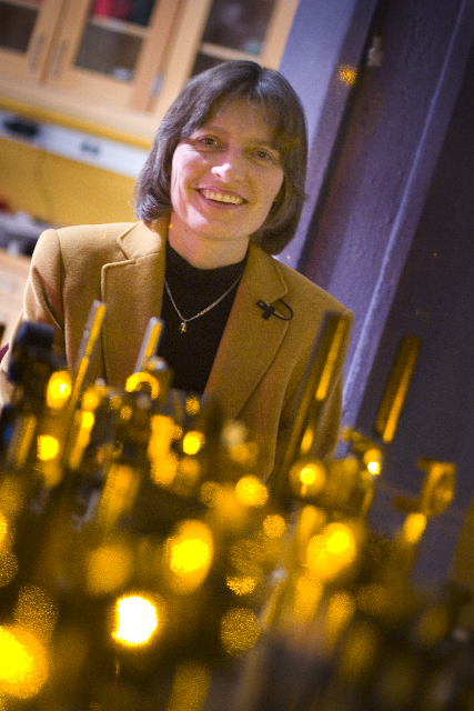 Prof Hau at the laser light optical table, used to generate light beams of a frequency resonant to a Bose-Einstein Condensate, the basis for experiments with slow and stopped light.